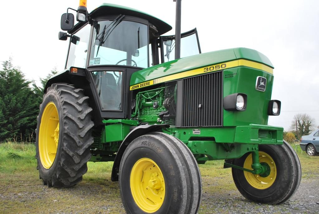 John Deere 3050. – Tractor run from McGovern's at Moyvalley, Co. Kildare, to the villages of Rathcore, Co. Meath, and on to Longwood, Co. Meath, returning to McGoverns. October 18th 2009. Ireland.